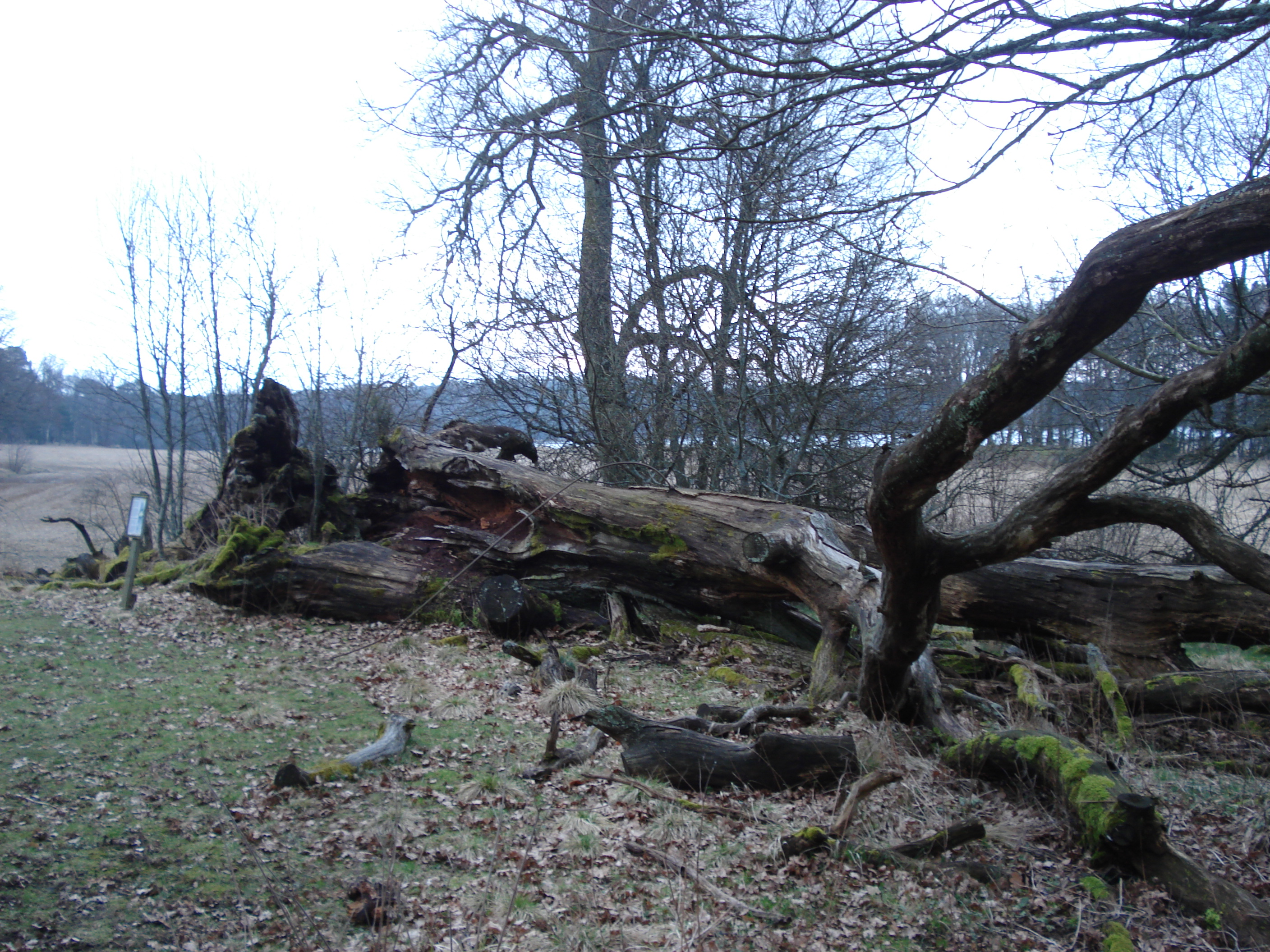 Lenholm conservation area is located in the south-west Finland, city of Parainen.